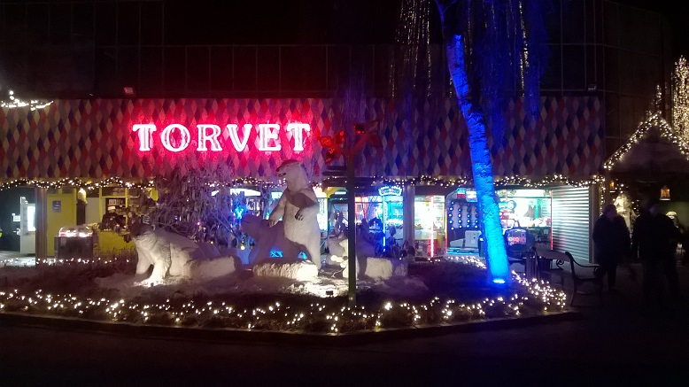 Tivoli Friheden, Aarhus